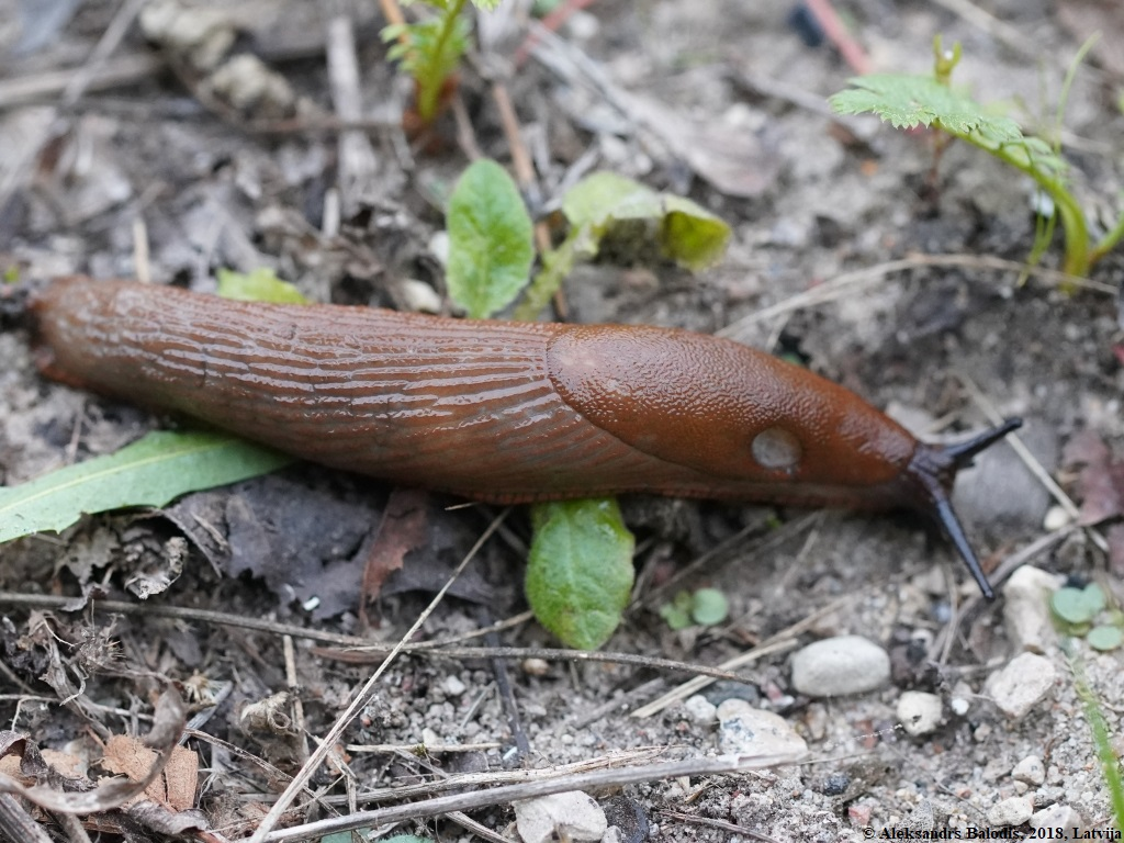 Arion vulgaris